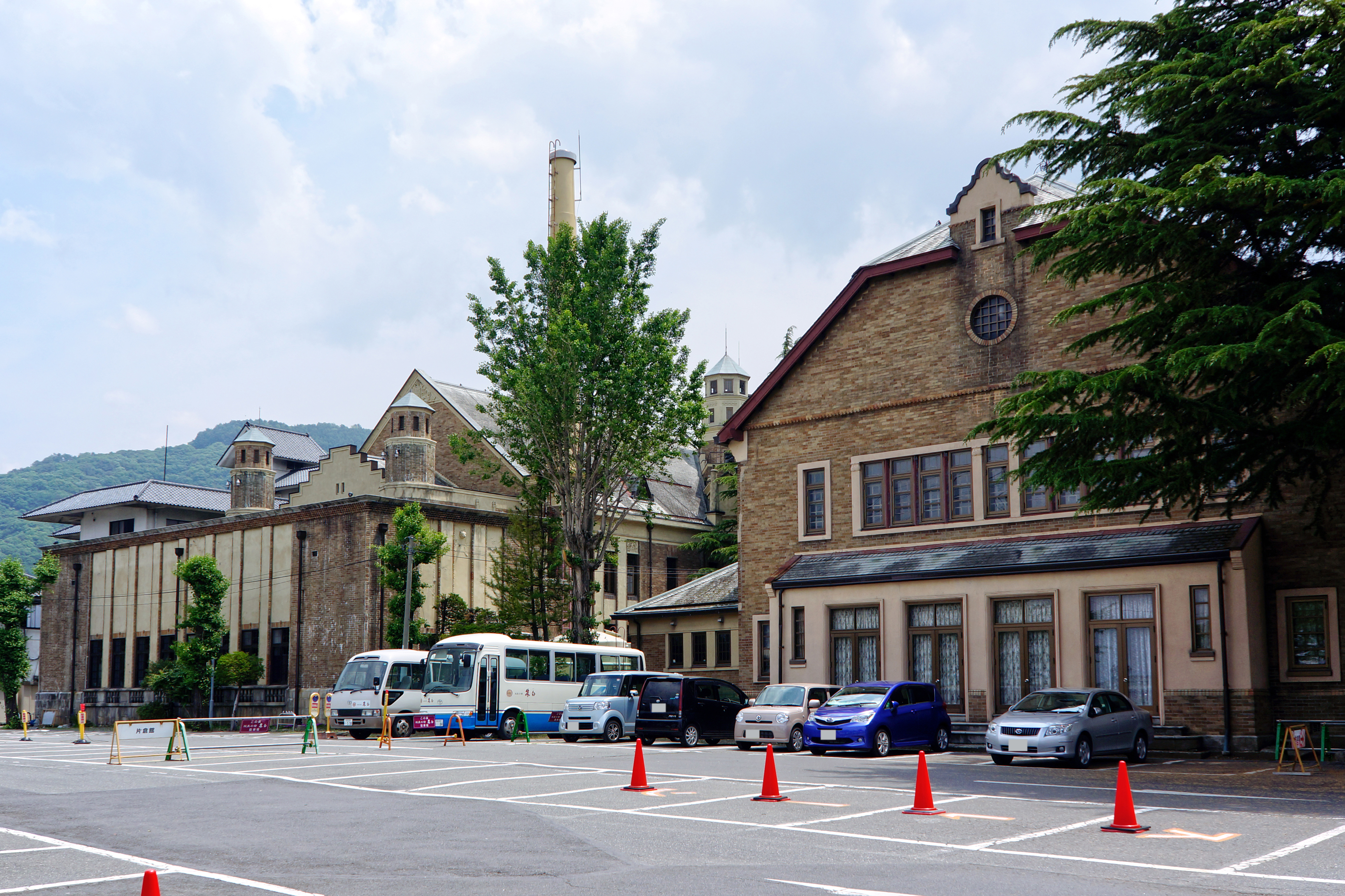 Katakurakan in Suwa, Nagano prefecture, Japan.